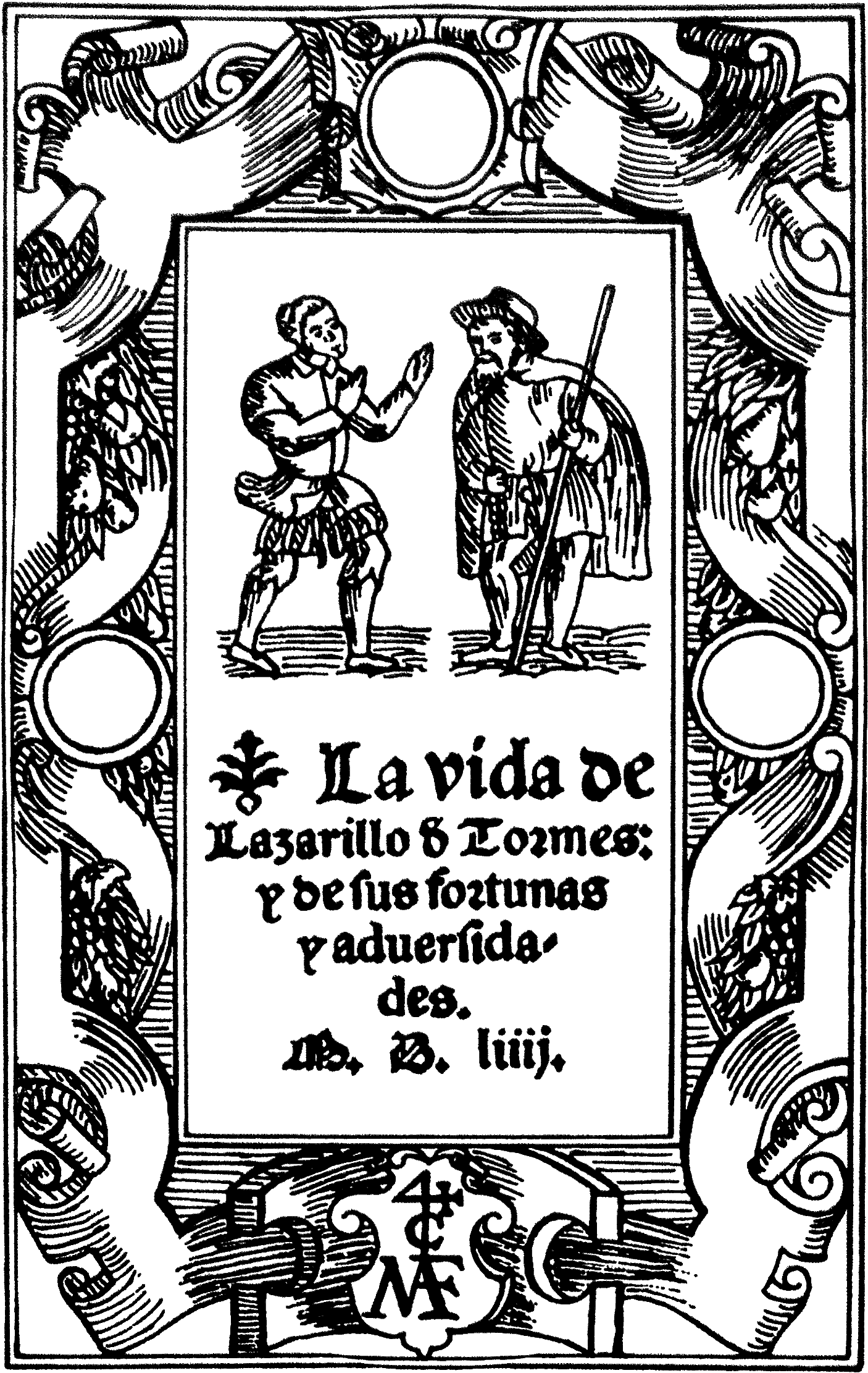 The Life of Lazarillo de Tormes and of His Fortunes and Adversities. Edited in 1554, Medina del Campo (Spain). Impressor Mateo & Francisco del Canto.[1]